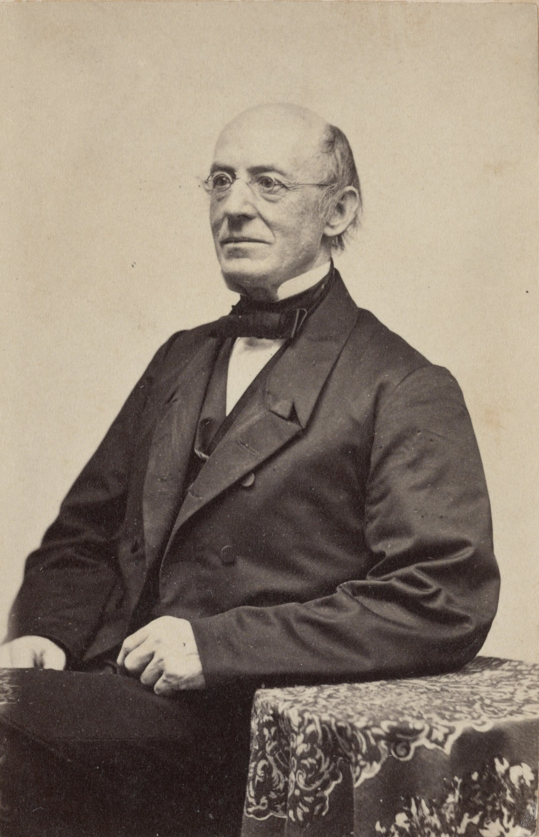 Title: William Lloyd Garrison, abolitionist, journalist, and editor of The Liberator Abstract/medium: 1 photograph : albumen print on card mount ; mount 11 x 7 cm (carte de visite format)